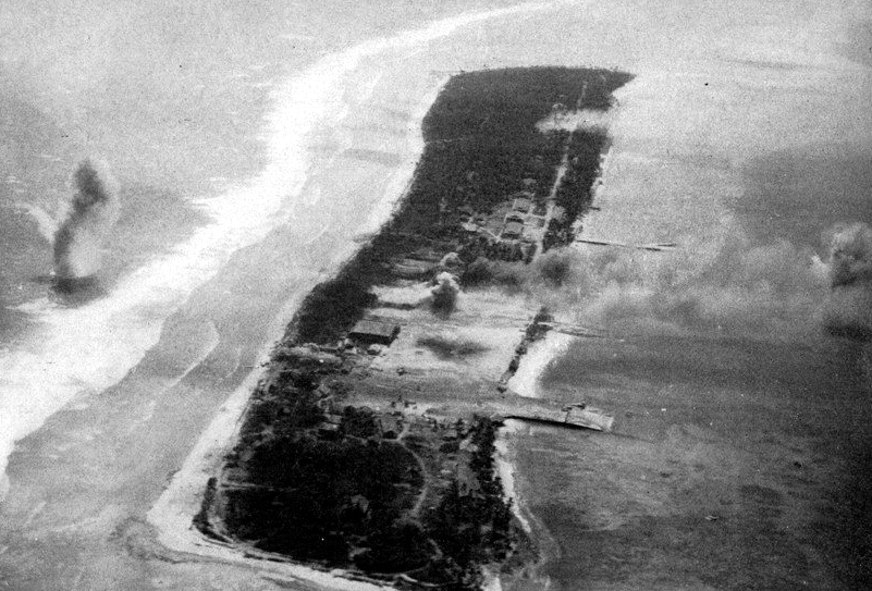 The island of Ebeye, Kwajalein atoll being shelled by U.S. Navy ships on 30 January 1944, among them was the battleship USS Massachusetts (BB-59).